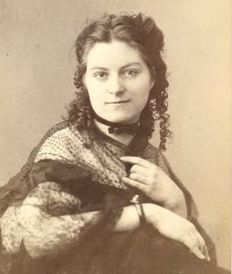 Auguste Auspitz-Kolár (1843 or March 19, 1844 – December 23, 1878) was a Bohemian-born Austrian pianist and composer.